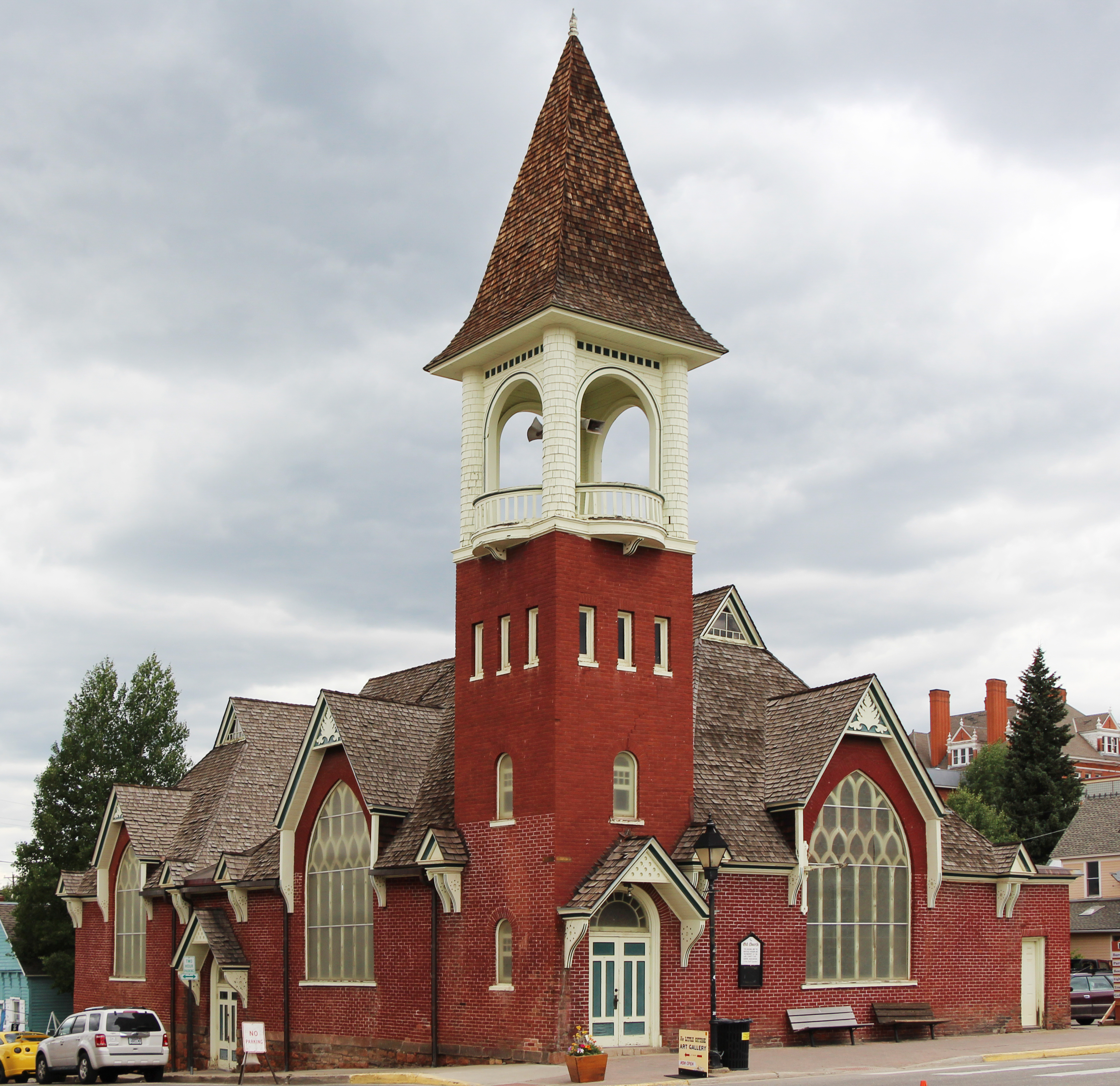 The Old Church, N.W. corner of 8th and Harrison Ave., Leadville, CO